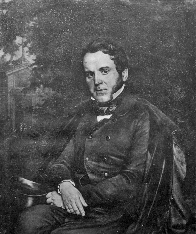 Portrait of Mikhail Bykovsky, architect, 1801-1885